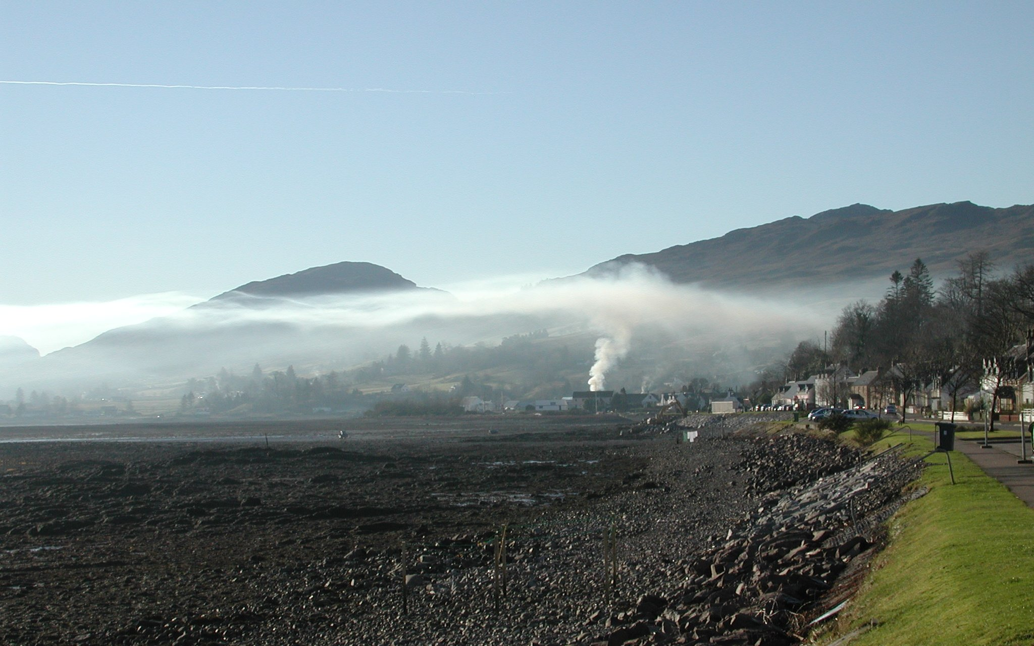 Rising smoke in Lochcarron forms a ceiling over the valley due to a temperature inversion. The picture was taken on an afternoon in January after a cold night.